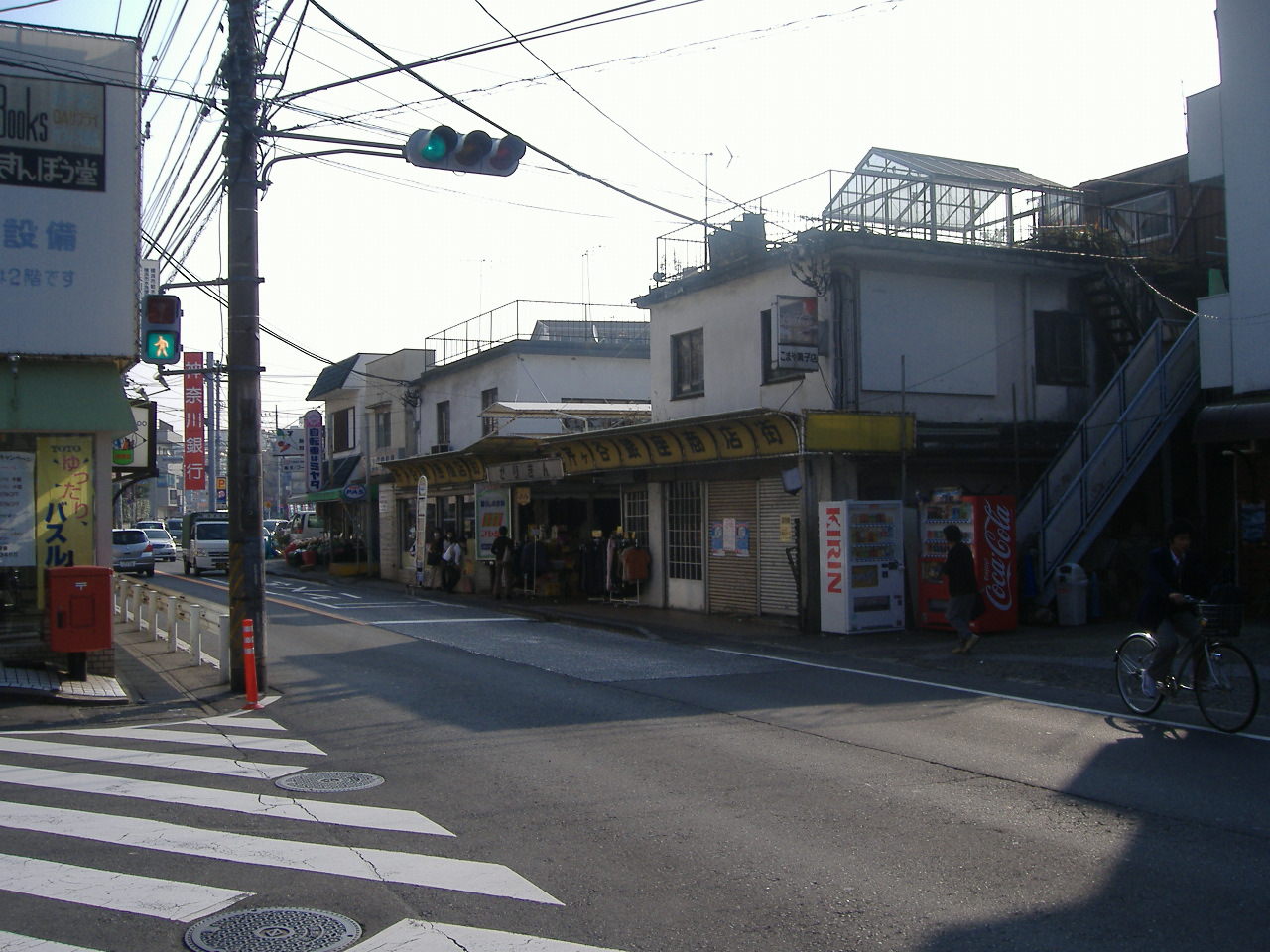 Serigaya (Yokohama, Japan)